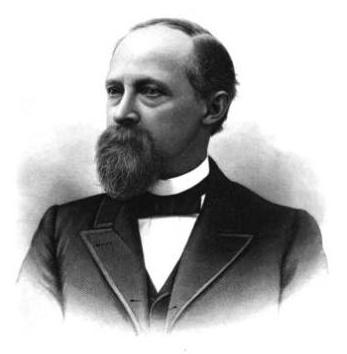 Cornelius H. Hanford, first federal judge in the Washington Territory, now Washington State, USA.